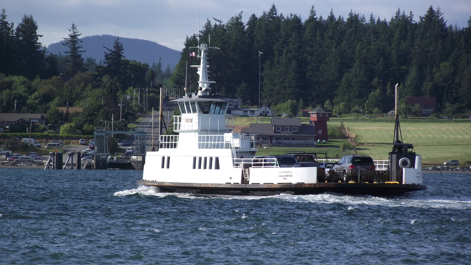 @ Anacortes, WA, USA